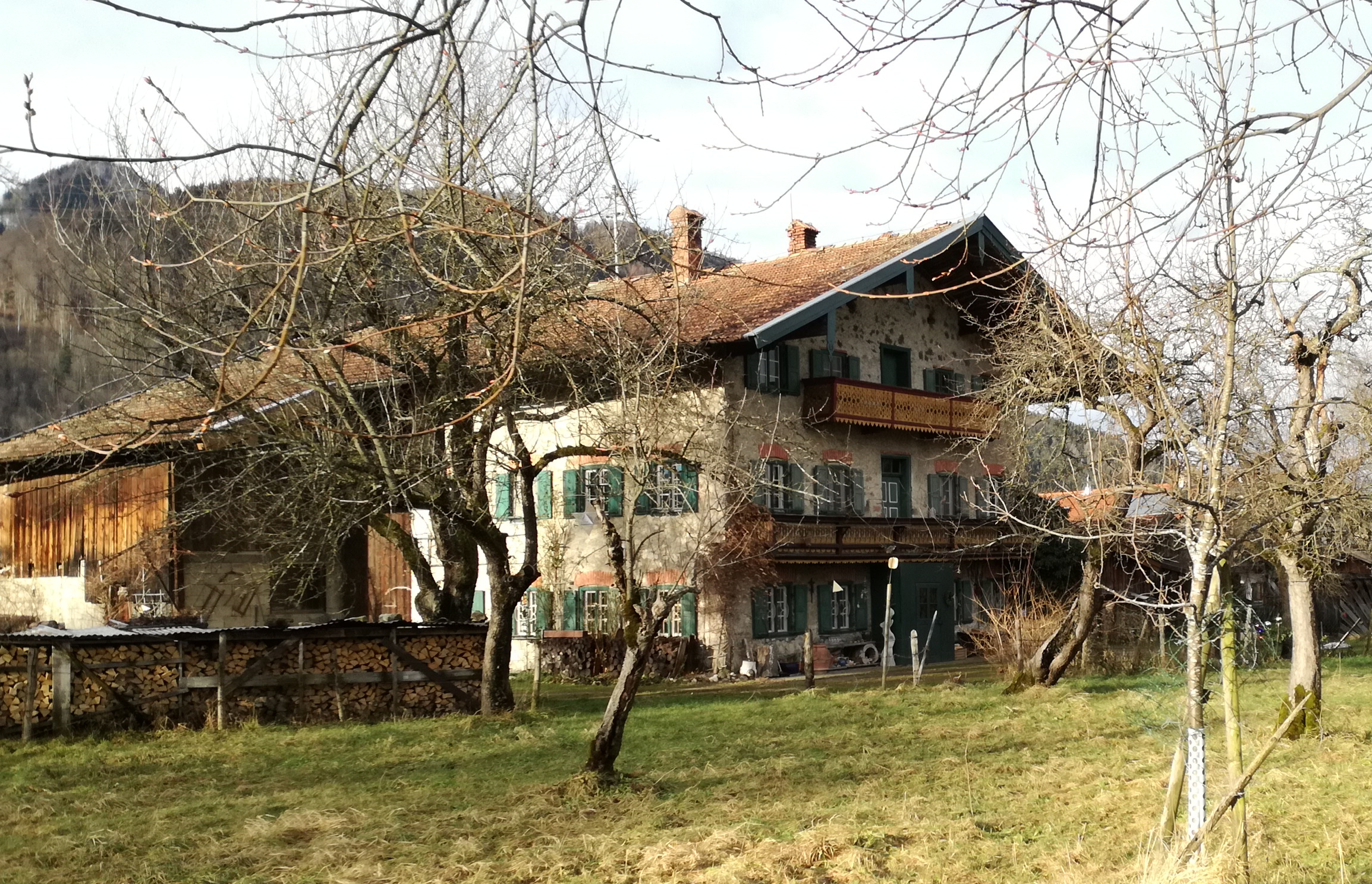 Farmhouse in Grassau Achentalstrasse 11